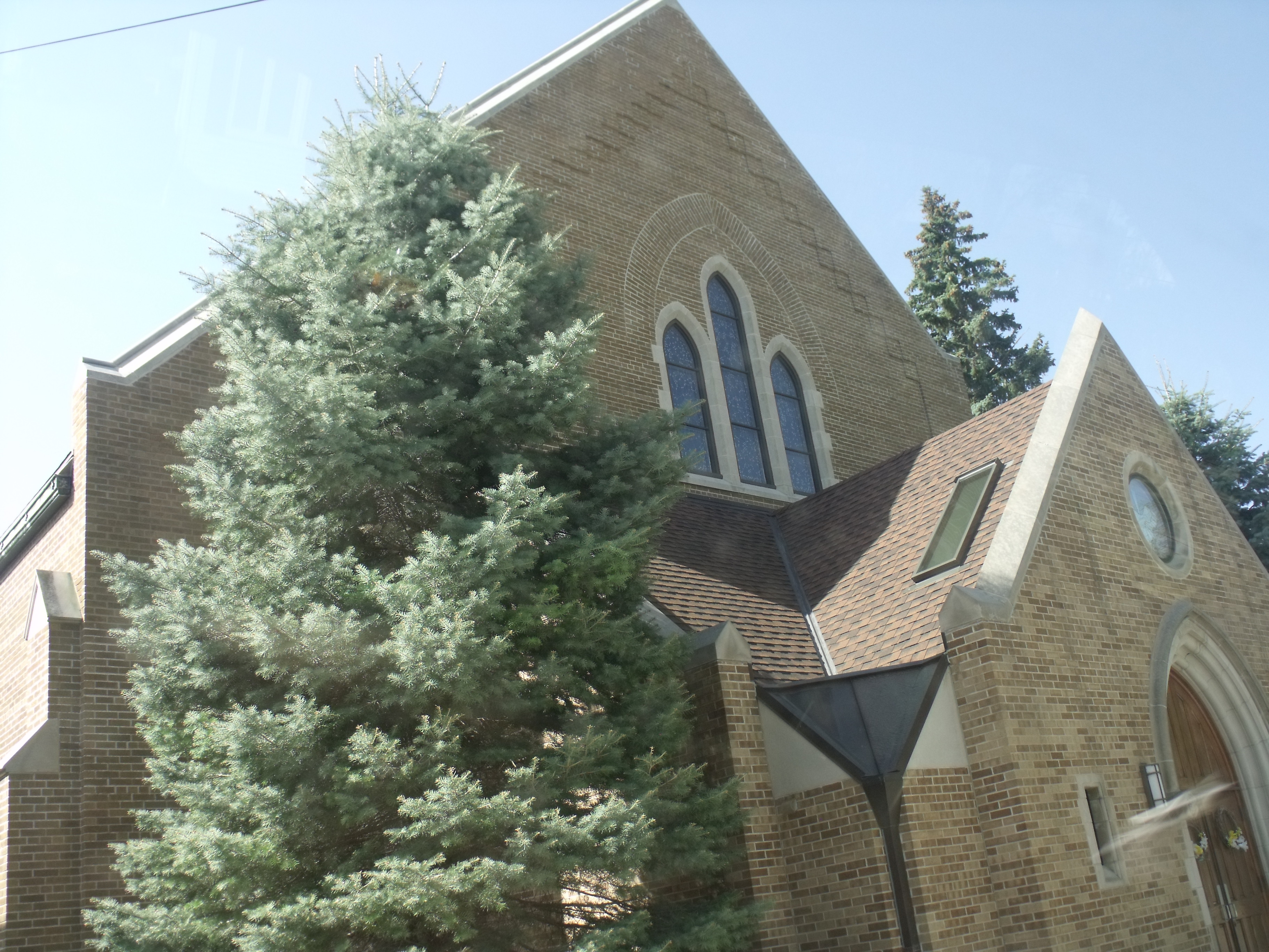 Blessed Sacrament Catholic Church Madison, WI